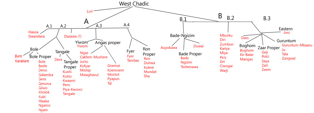 A map of all West Chadic languages of the Afroasiatic family